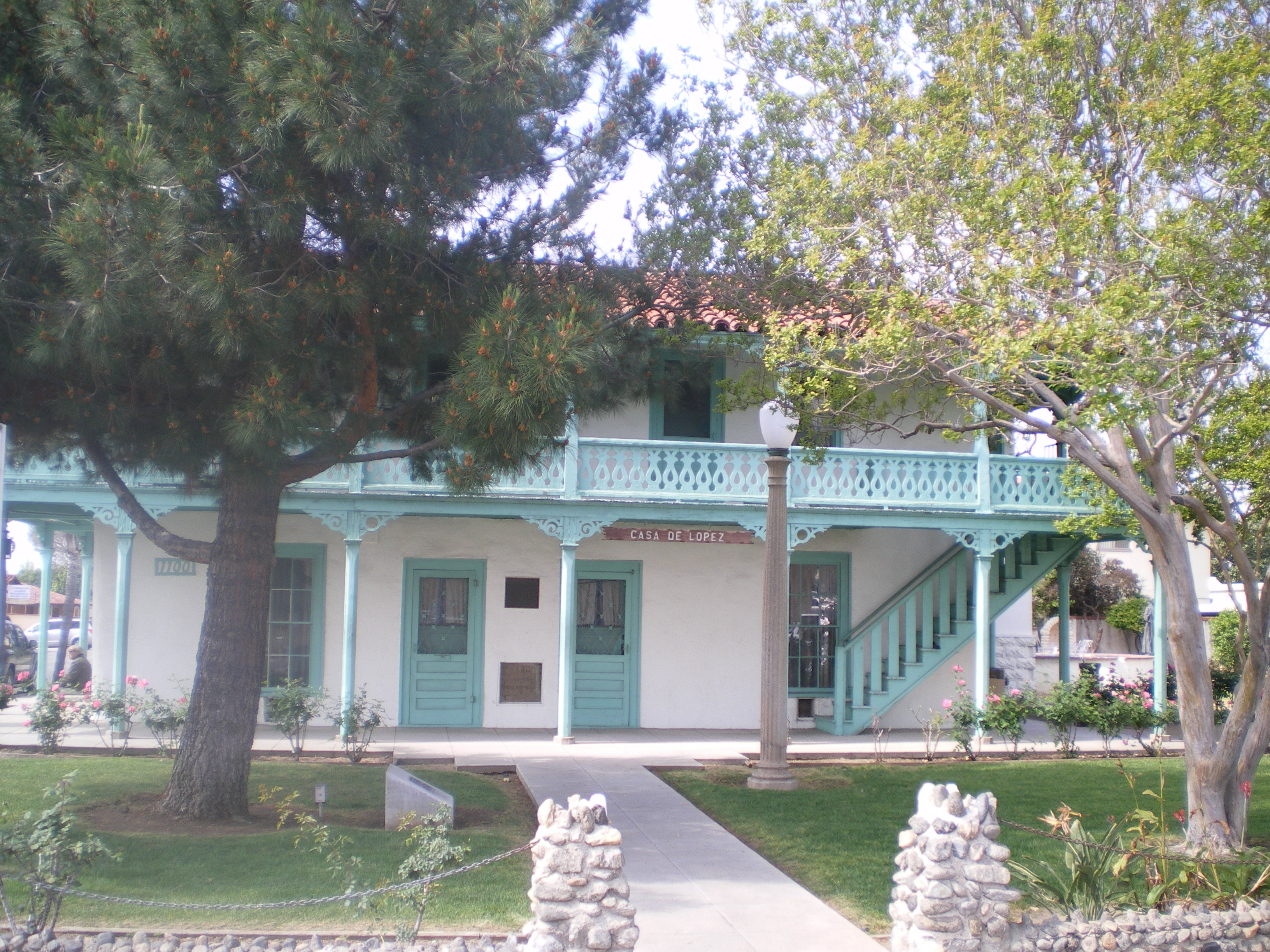 Casa de Lopez (Lopez Adobe), San Fernando, CA San Fernando, CA